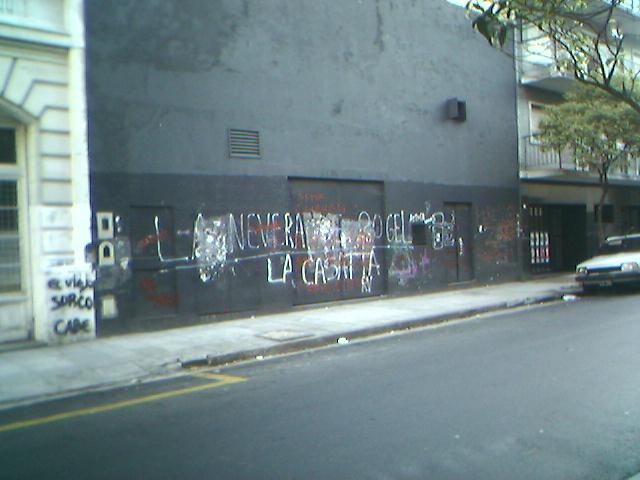 Former 'Cemento' discotheque in Buenos Aires, now a parking garage for municipal staff.